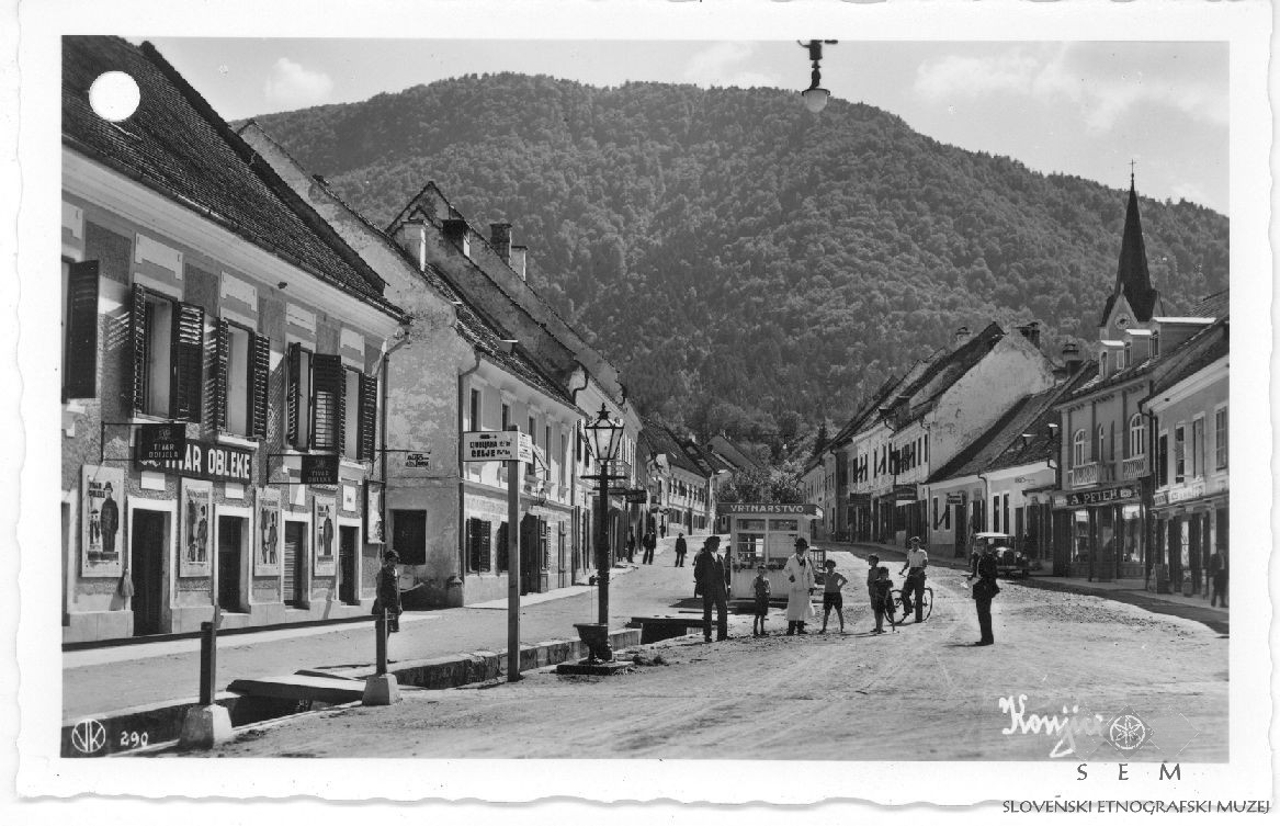 Postcard of Slovenske Konjice